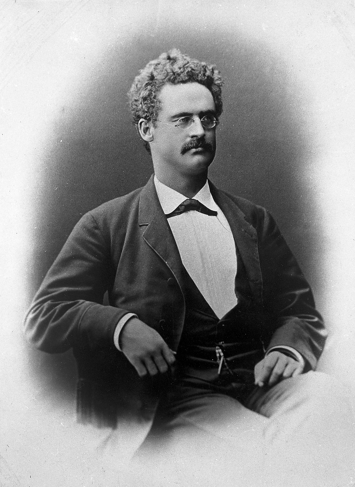 Ivar Victor Sandström. Photograph. Iconographic Collections Keywords: Ivar Victor Sandstrom